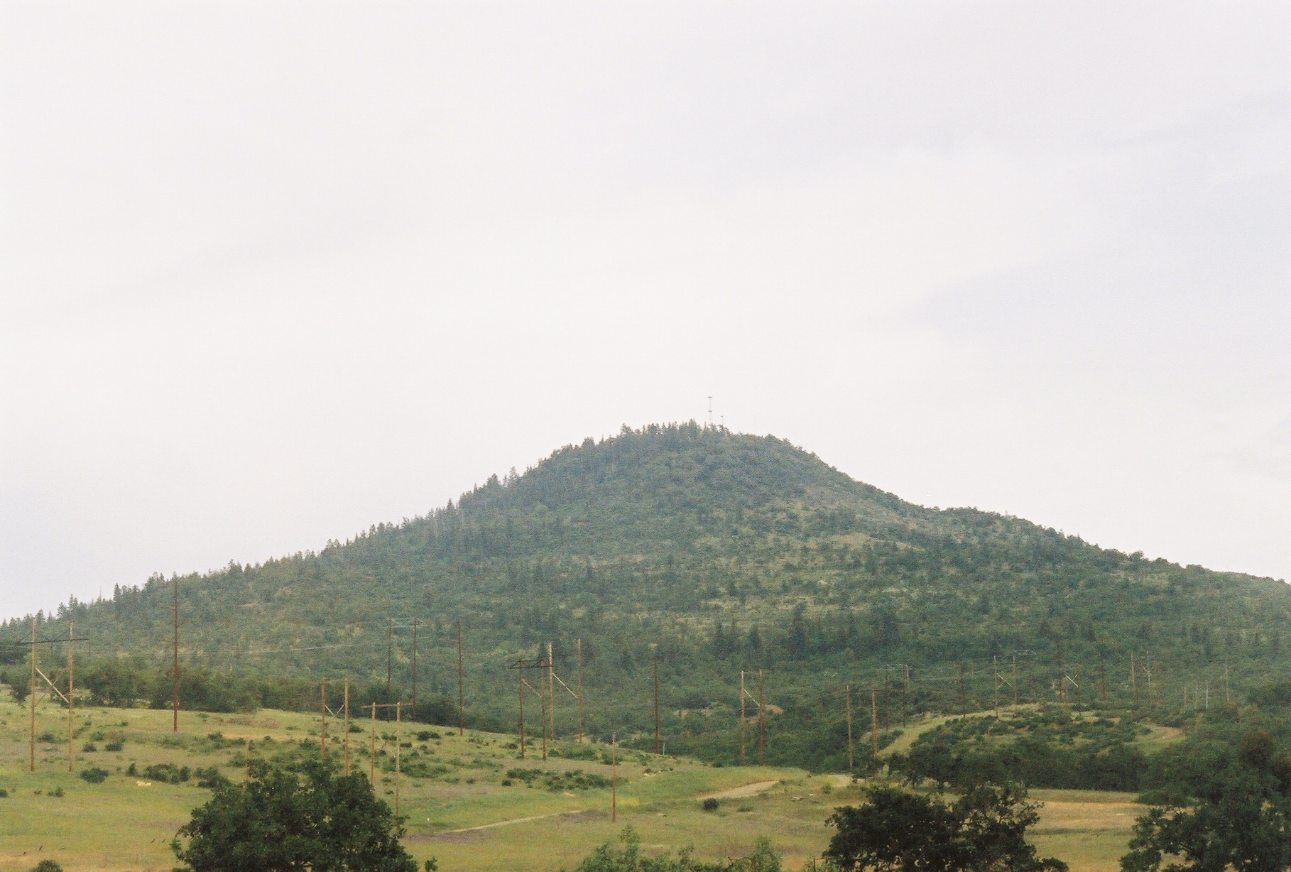 Roxy Ann Peak, Oregon, USA